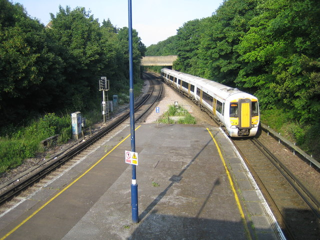 Dumpton Park railway station This is the eastern end of the, to say the least, minimalist station, with the concrete parapet of the A255 Ramsgate Road bridge in the distance. The 17:54 Southeastern trains service to Ramsgate is entering the station with Unit No. 375612 leading.